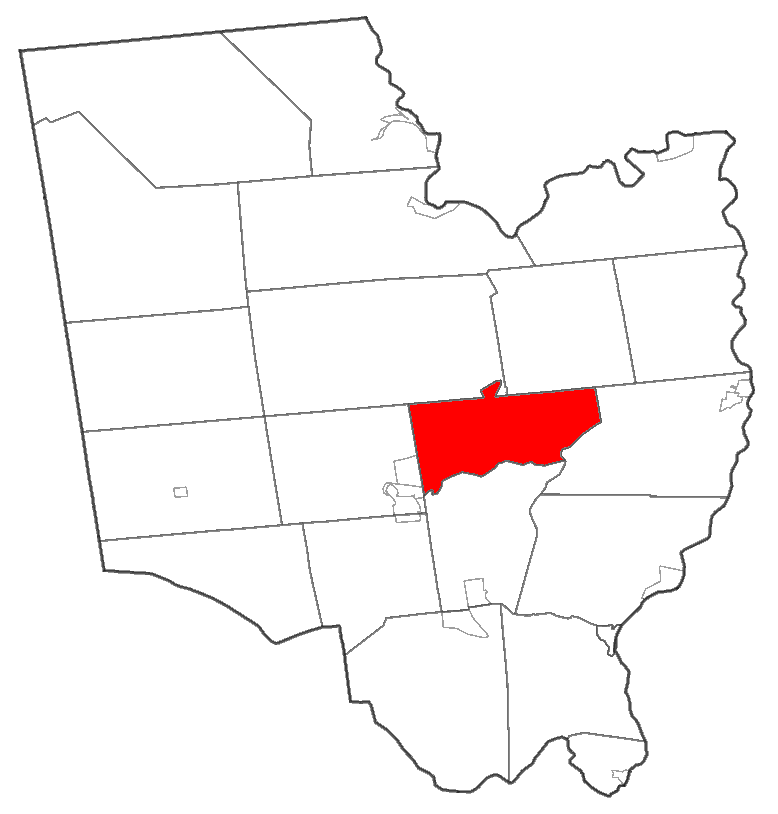 Map of Saratoga County highlighting Saratoga Springs